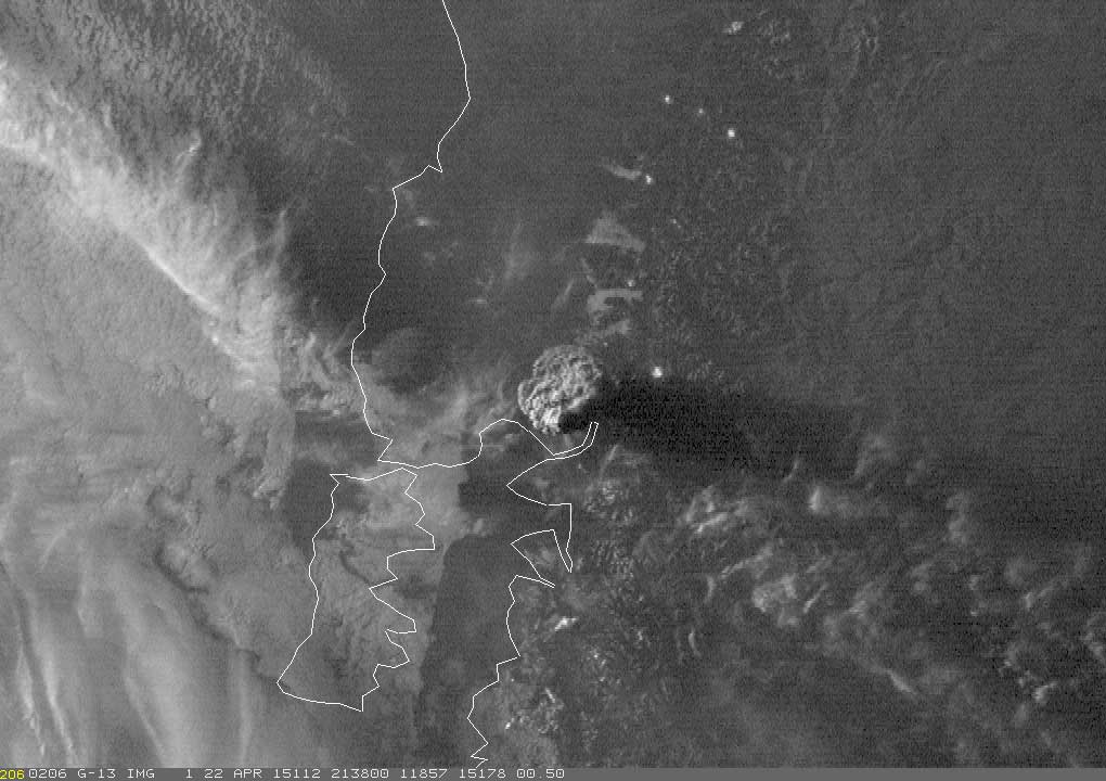 GOES-13 satellite image of the plume from the April 22, 2015 eruption of Calbuco